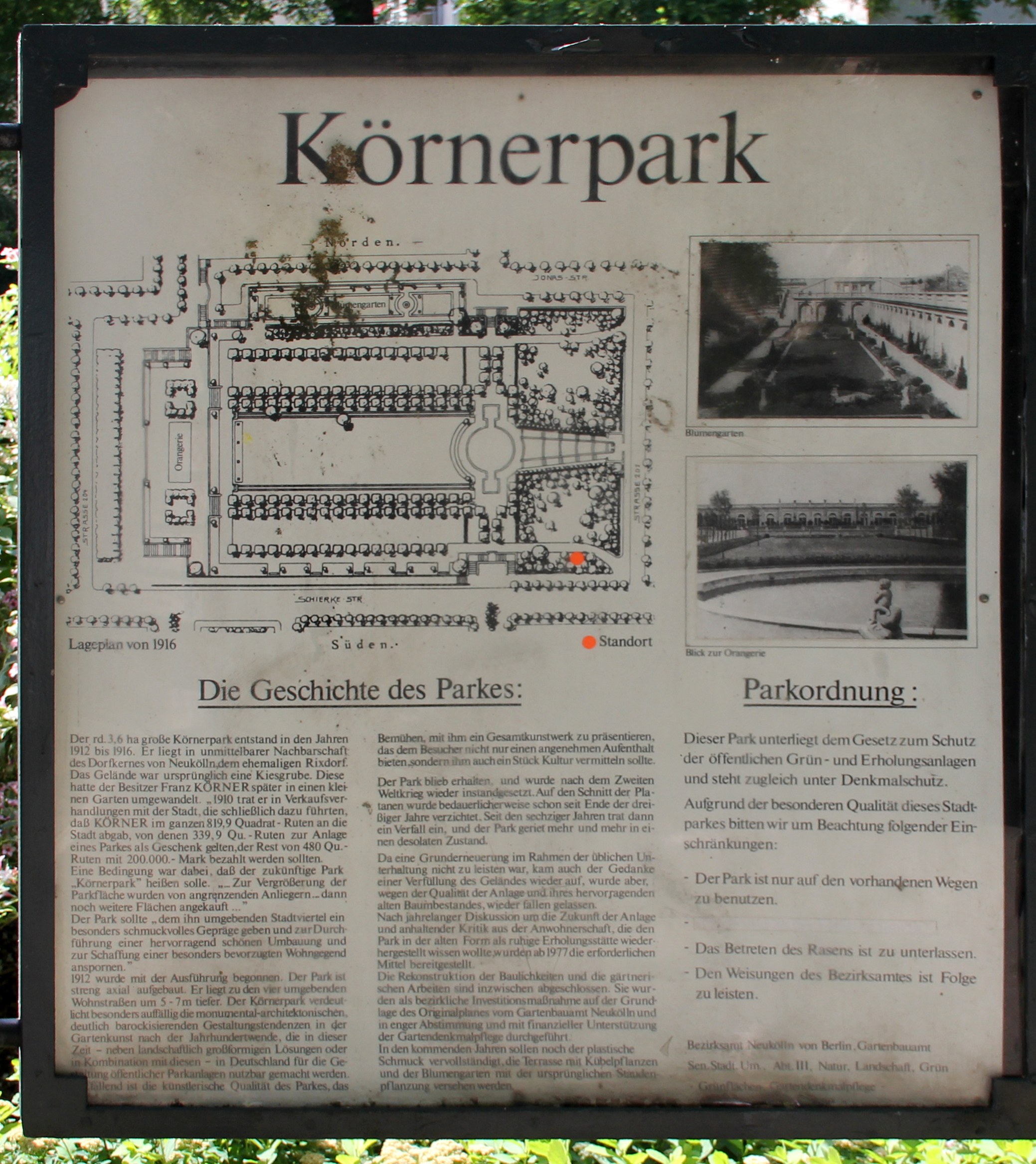 Memorial plaque, Körnerpark, Wittmannsdorfer Straße 6, Berlin-Neukölln, Germany